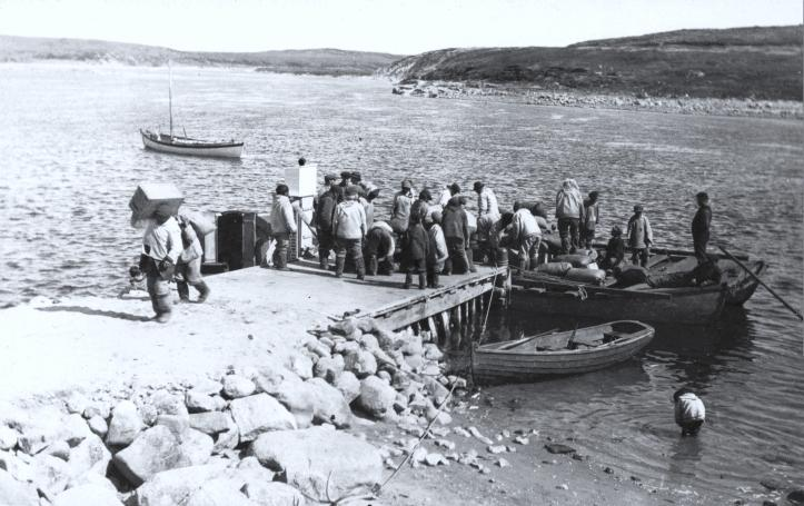 Photograph, Unloading supplies at Port Harrison (Inukjuak), QC, 1922, Frederick W. Berchem, Silver salts - Gelatin silver process - 8.3 x 13.4 cm